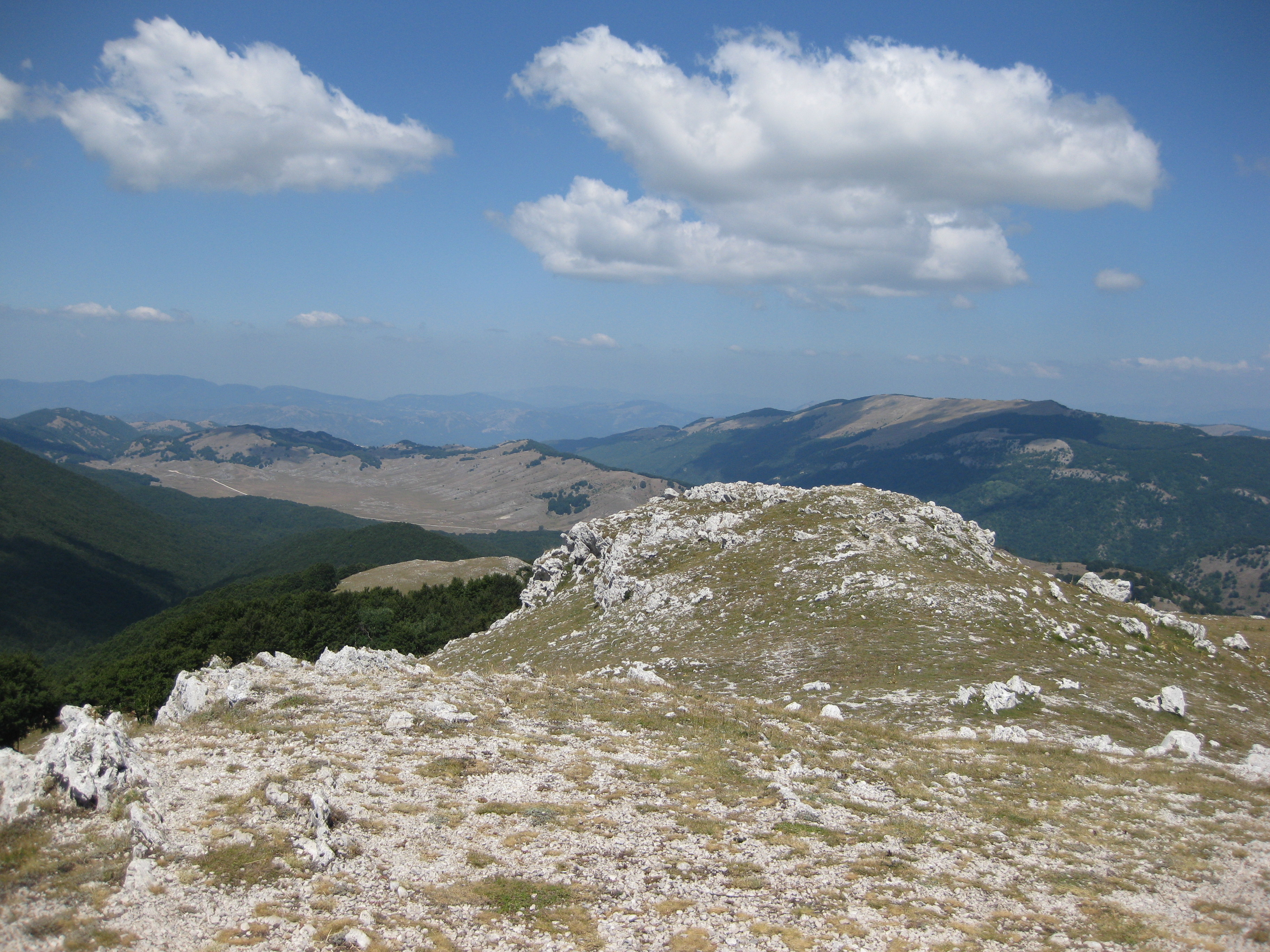 Monti Simbruini — a mountain range in central Italy, part of Apennines. Monte Autore peak - 1853 m..